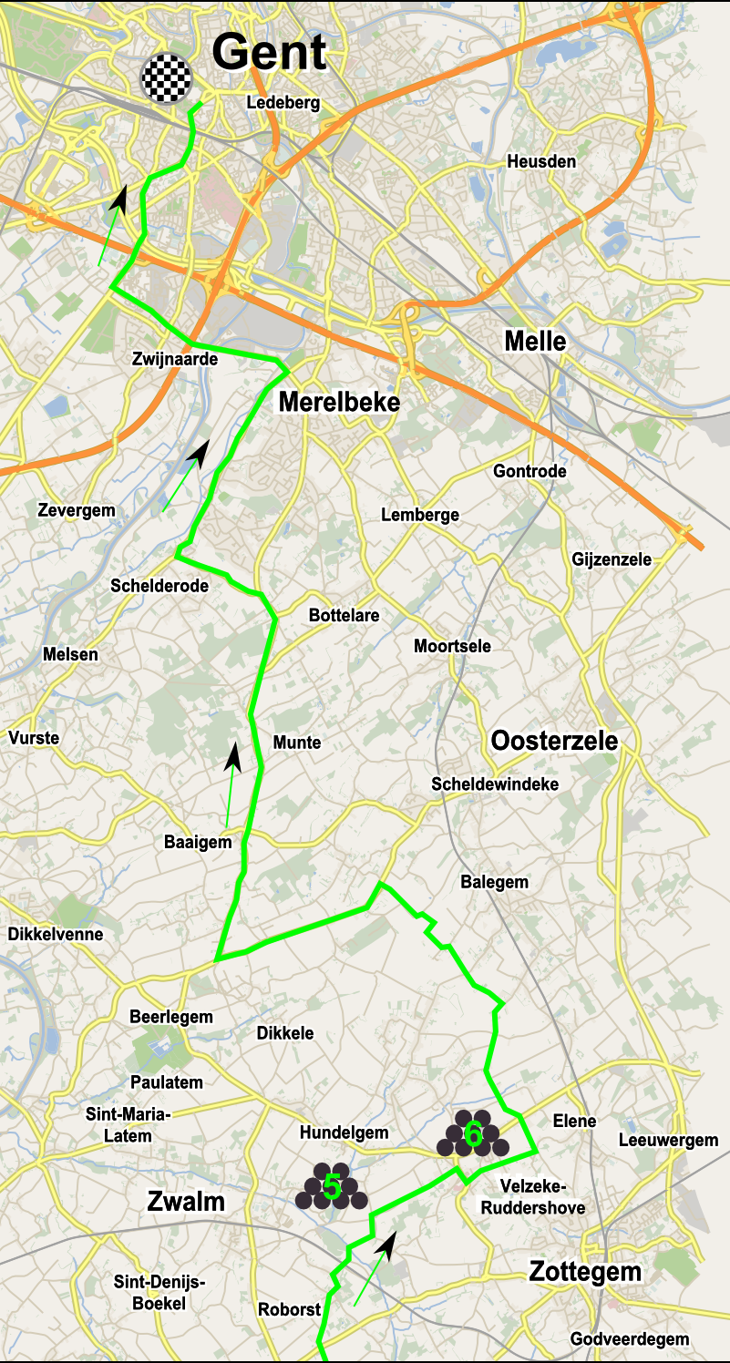 Circuit Het Nieuwsblad 2016, part 3 of the circuit.